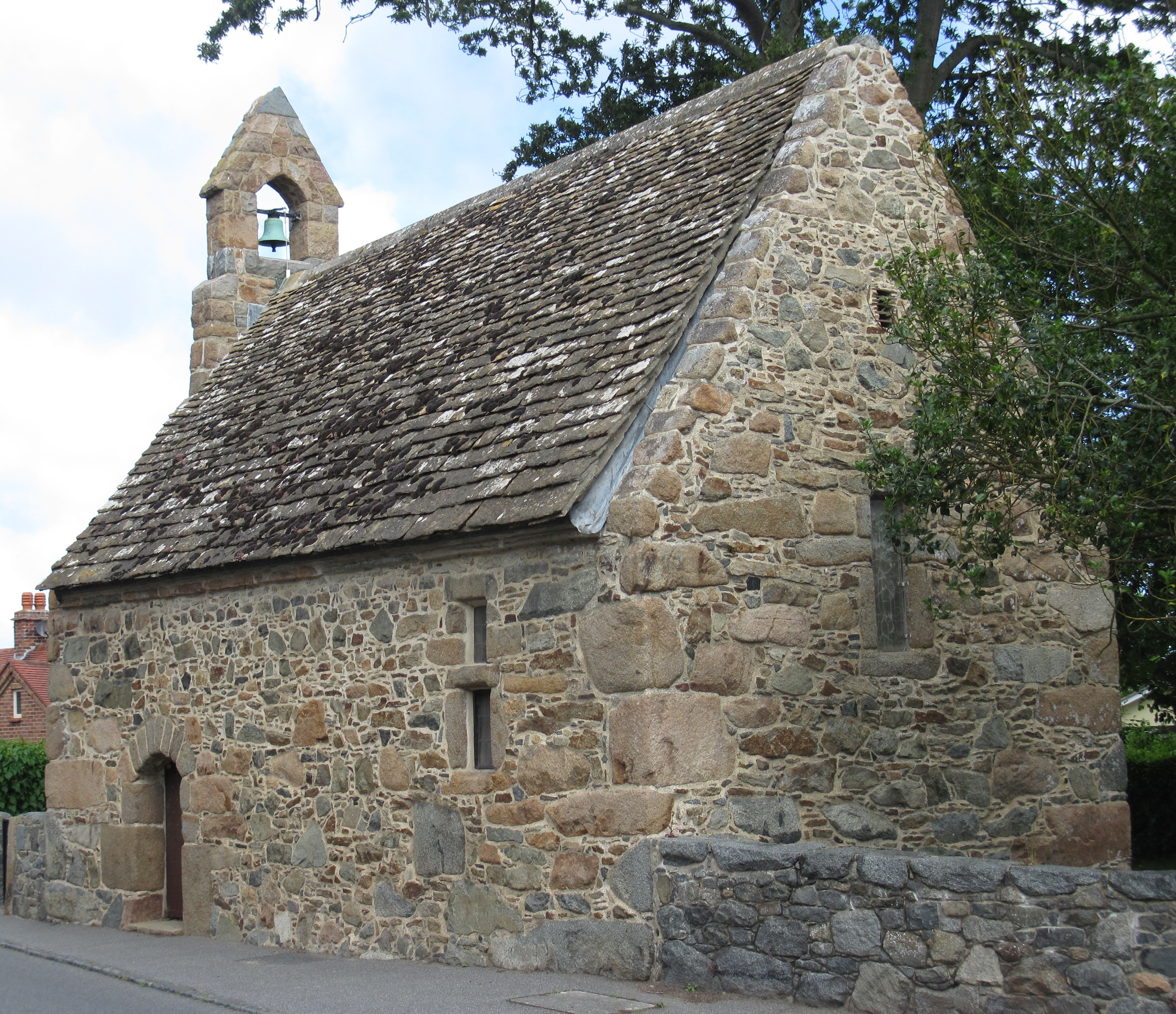 Saint Saviour, Guernsey: Chapel of St. Apolline Nrf: Saint Sauveux (Guernési)